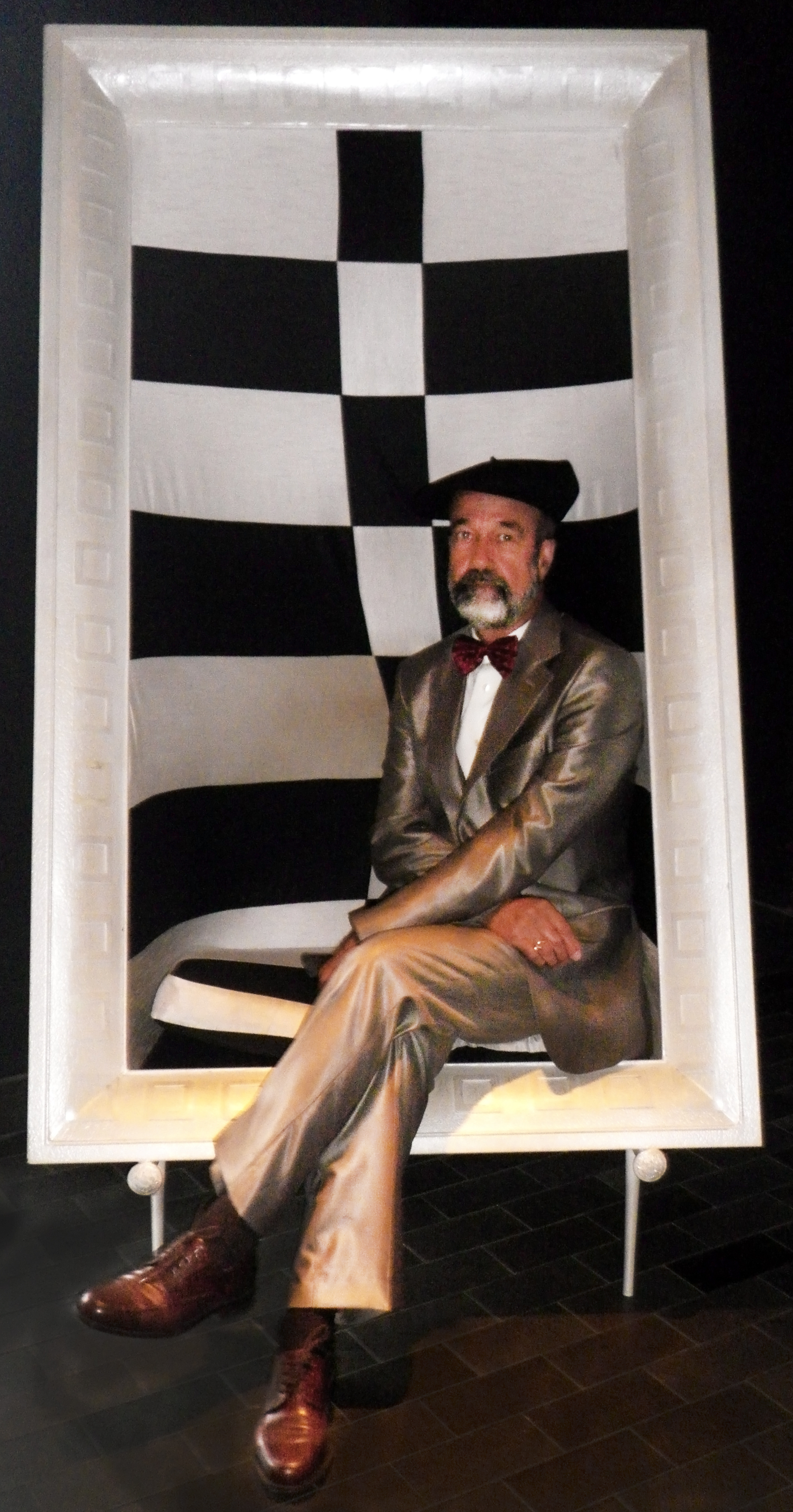 Juan Gérvas, spanish general practitioner